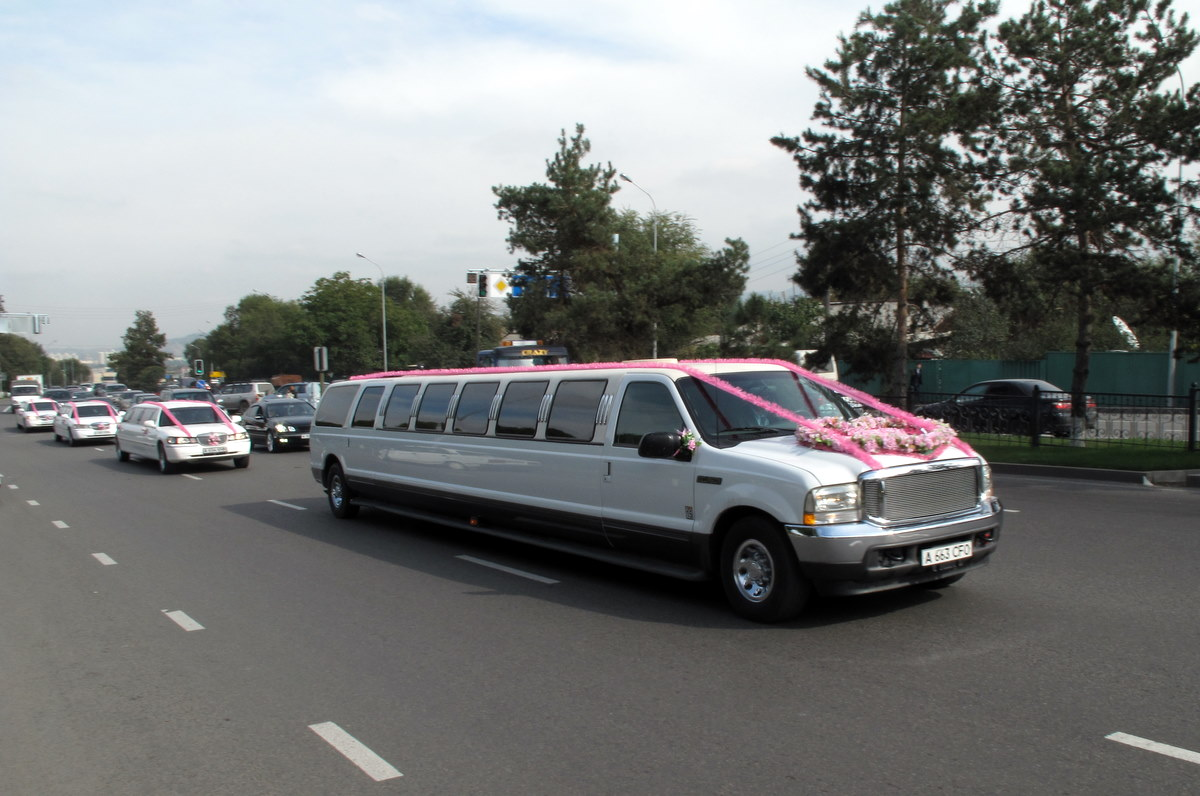 These are all around town every weekend day centered around the summer. Weddings, weddings, weddings...